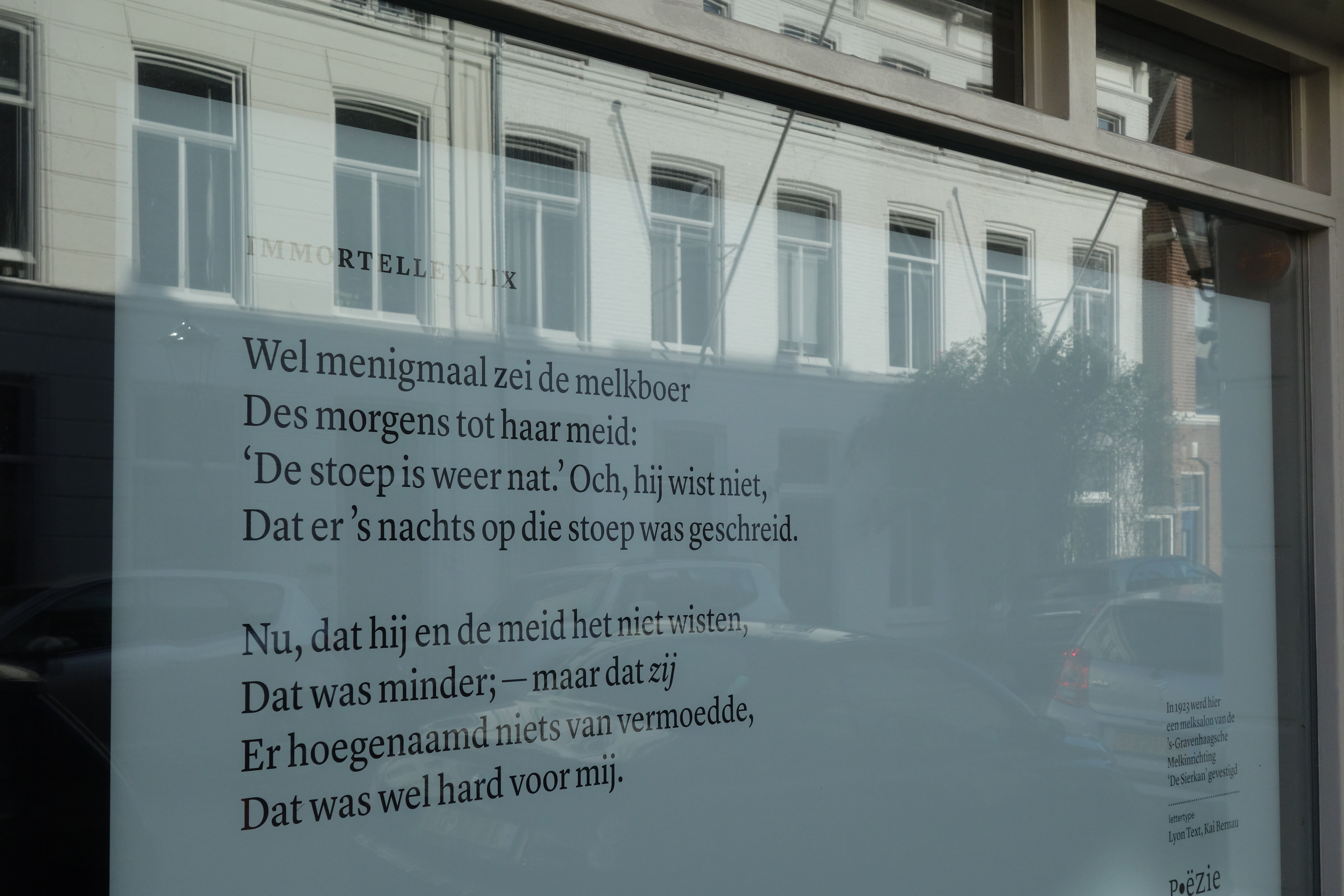 Poem 'Immortelle XLIX', Atjehstraat 13 in The Hague